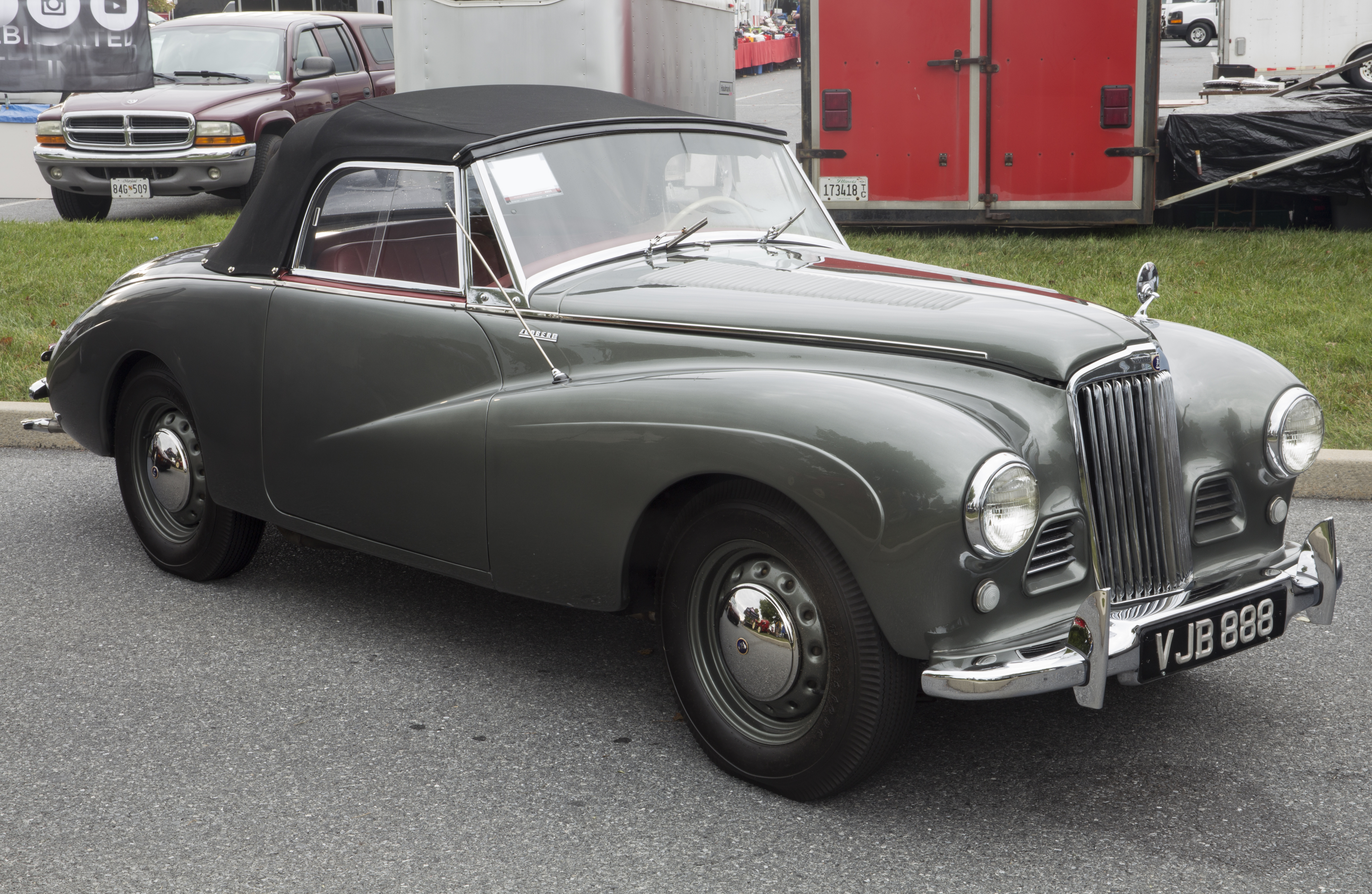 A 1954 Sunbeam Alpine Mark I Roadster displayed by a vendor at Hershey 2019. LHD.